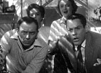 Screenshot from the trailer of Invasion of the Body Snatchers (1956). Film trailers from before 1964 are in the public domain.